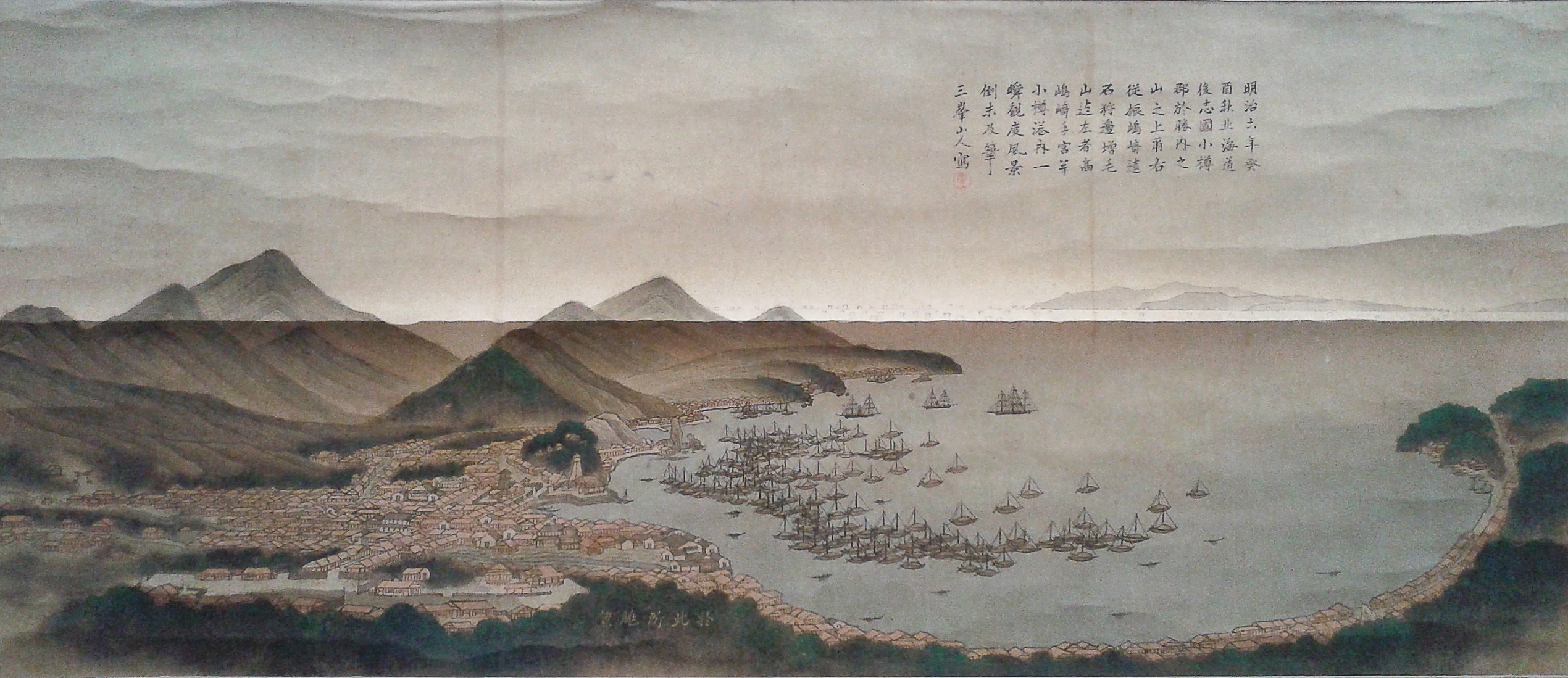 A view of Otaru harbour painted in 1873 (Meiji 6) by Mitsumine Imamura. On display at Matsumae Castle in Matsumae, Hokkaido. In the distance is the coast near of Mashike (centre), and Ishikari (centre right).